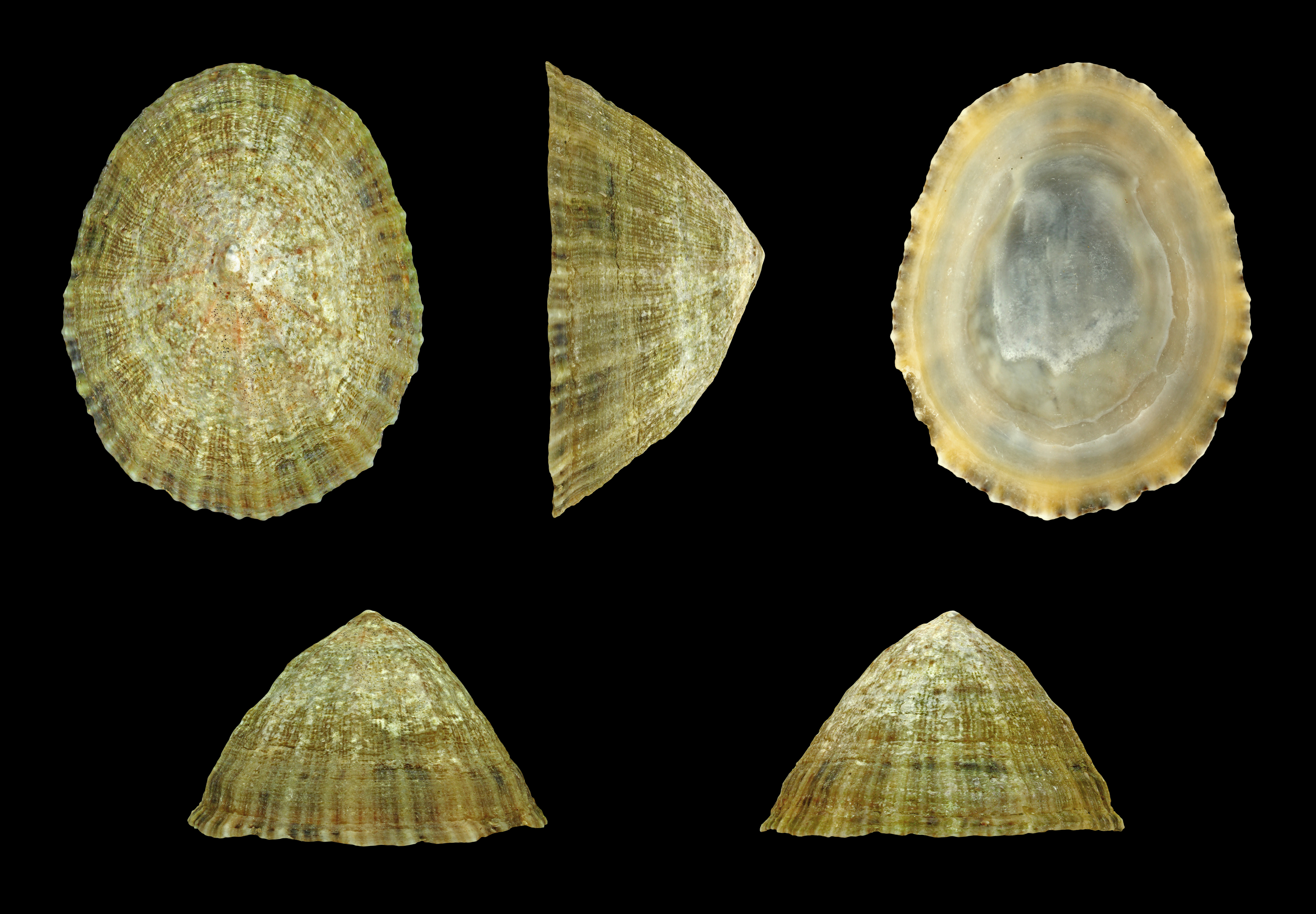 Common Limpet; Length 4.9 cm; Originating from Granville, Normandy, France; Shell of own collection, therefore not geocoded